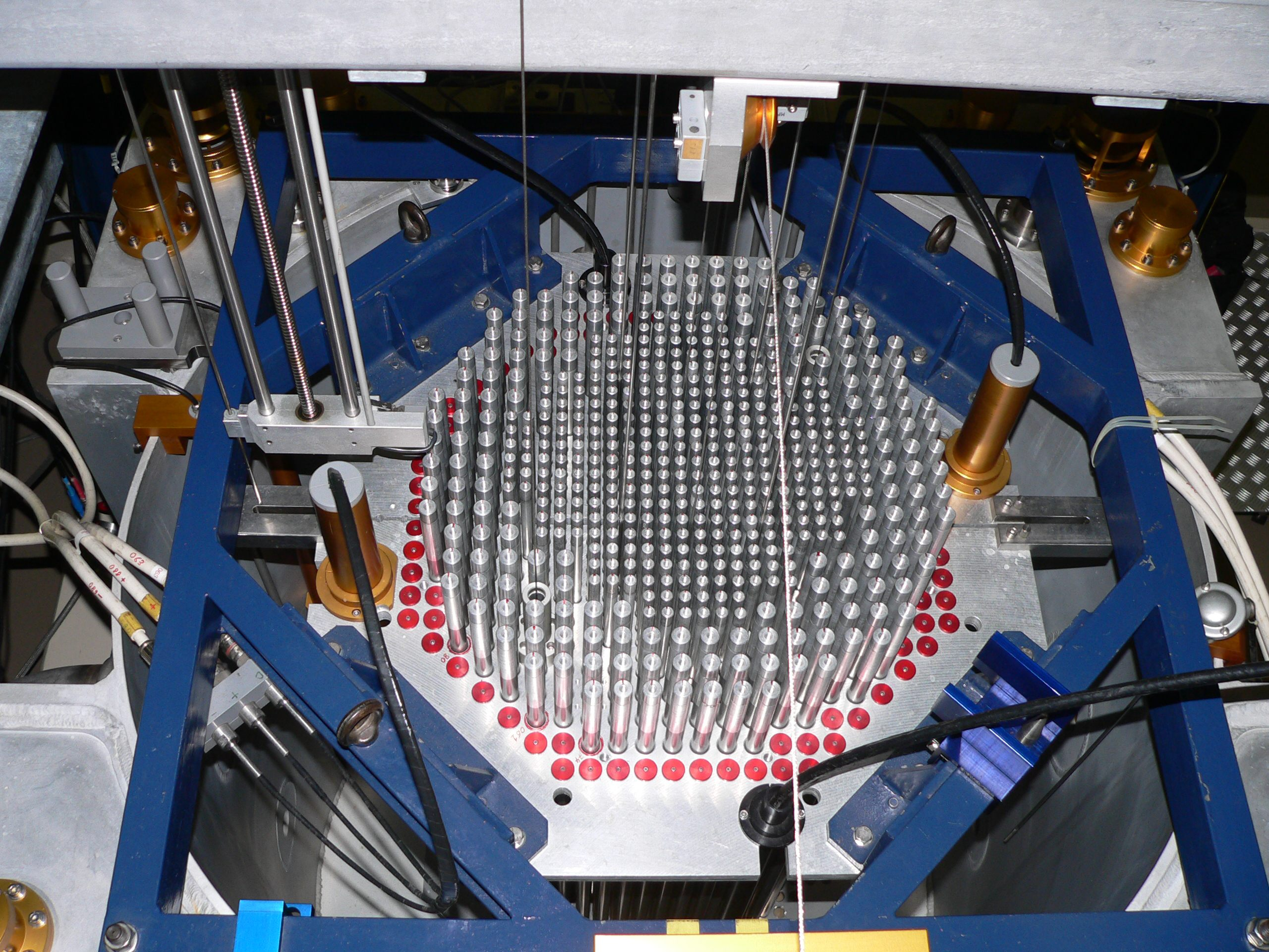 Nuclear installations at the EPFL CROCUS Reactor; CAROUSEL experiments; miscellaneous experiments and manipulations; detectors and instruments. Core of the reactor. Note the strings and motors of the control rods (here engaged in the core), the water basin (empty here) and the four expansion vases which can evacuate the water from the basin in less than a second (hence cutting off the reaction). Wholehearted thanks to René Frueh, chief of operations of CROCUS, for devoting a whole hour to open doors to this universe and explain technical details.